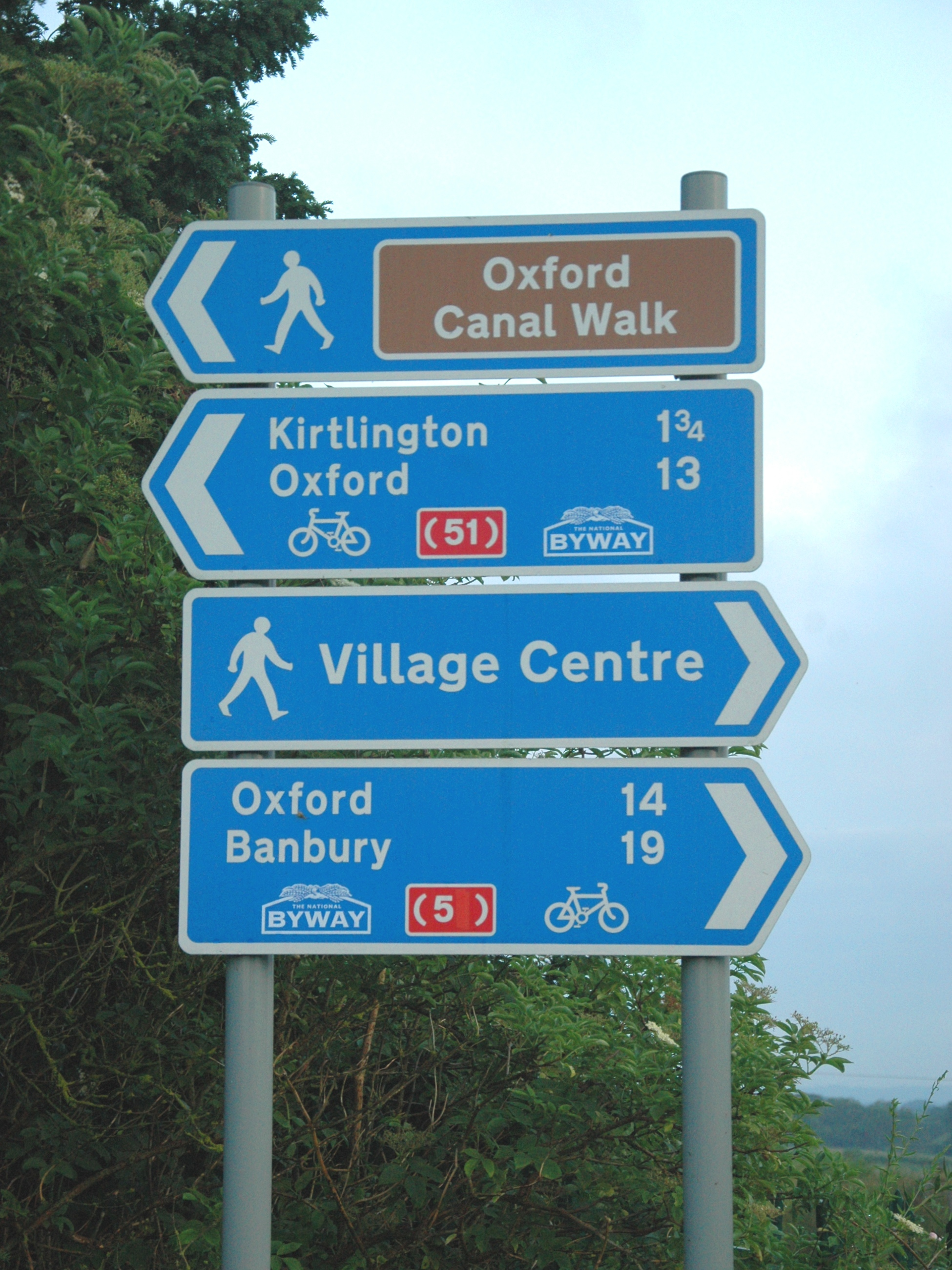 Tackley railway station, Oxfordshire: some of the signs on the east side of the user-operated level crossing.